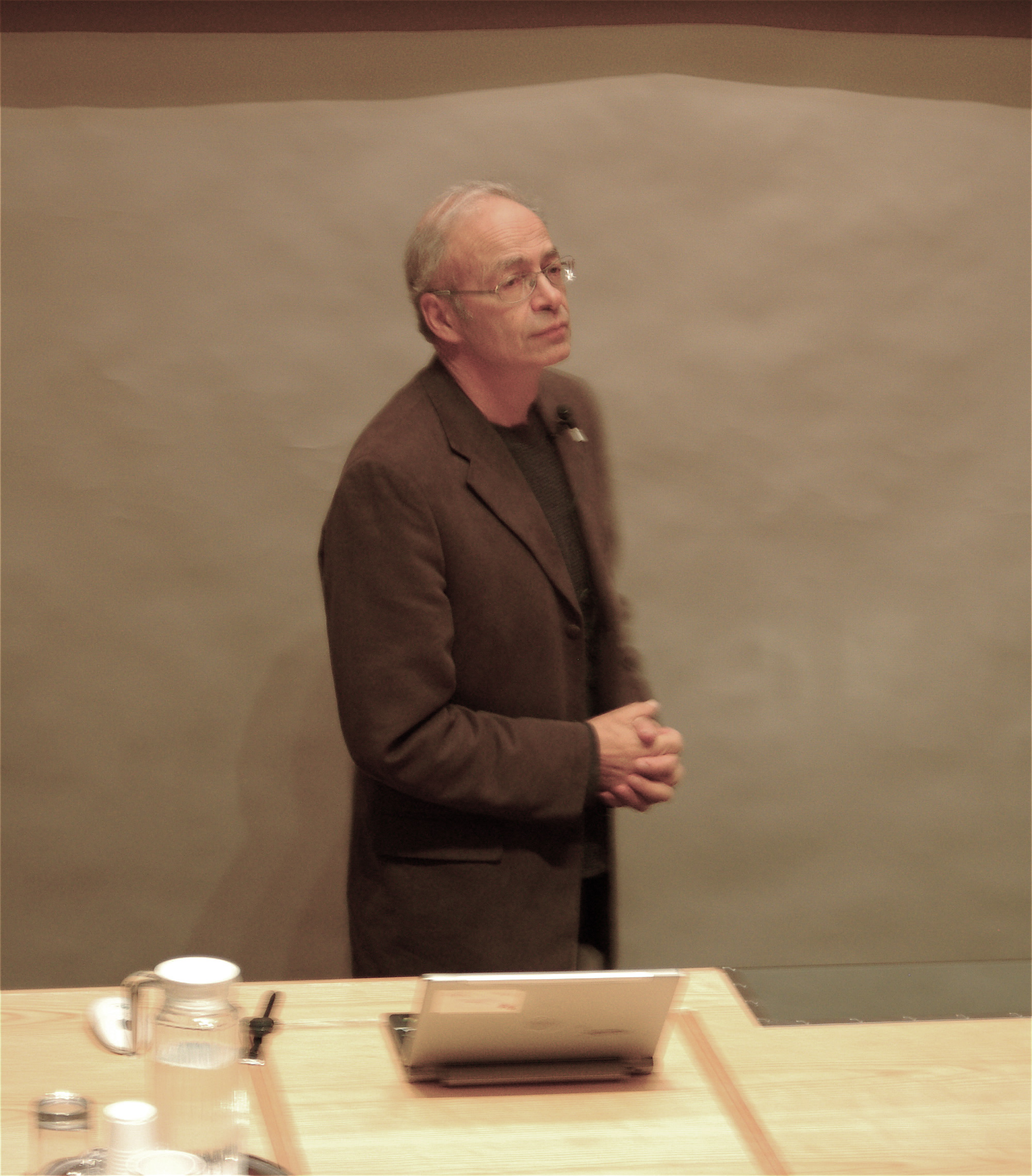 I had a chance to see Peter Singer speak. From wikipedia: "In Animal Liberation, Singer argues against what he calls speciesism: discrimination on the grounds that a being belongs to a certain species. He holds the interests of all beings capable of suffering to be worthy of equal consideration, and that giving lesser consideration to beings based on their having wings or fur is no more justified than discrimination based on skin color. "